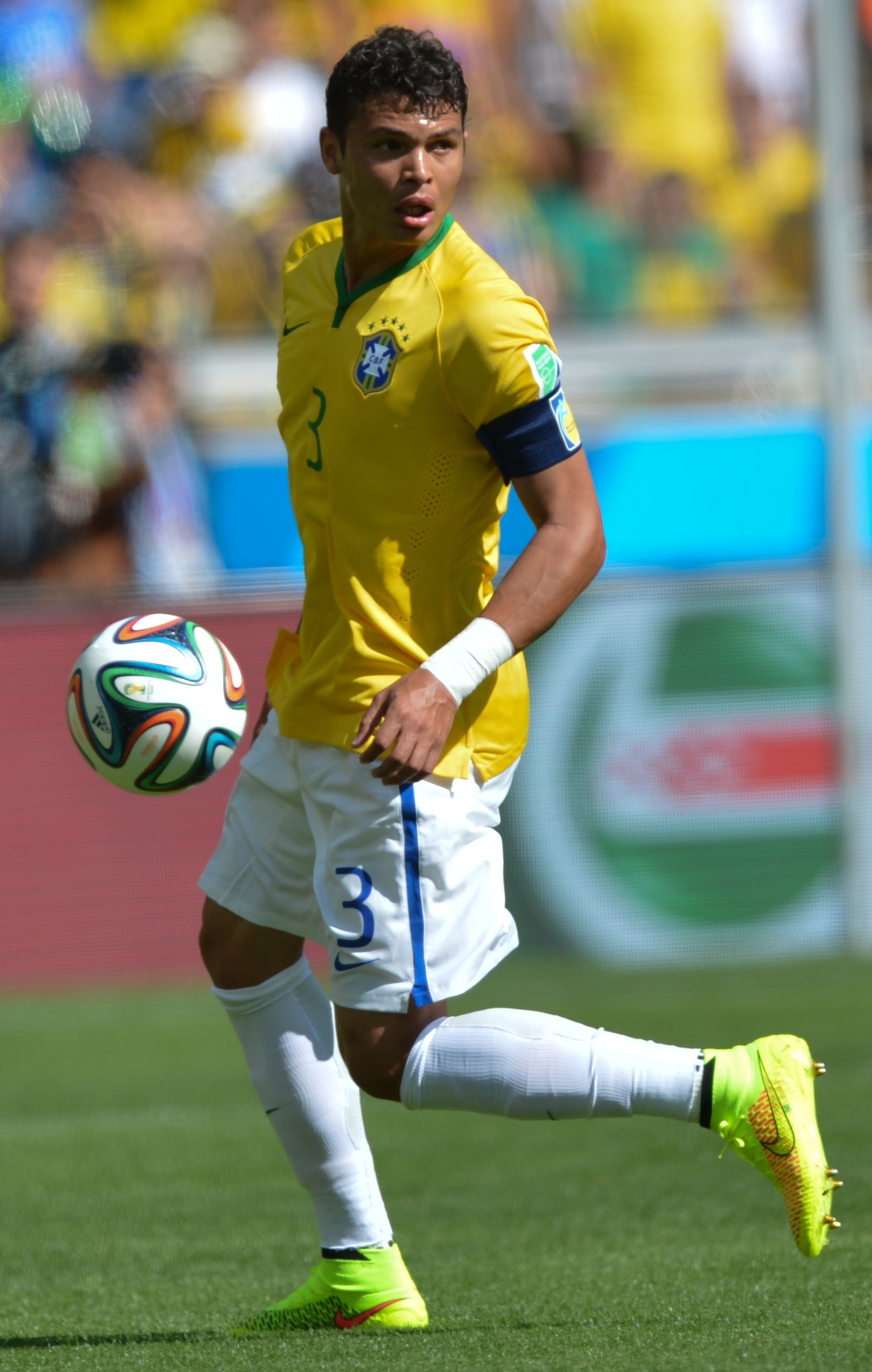 Brazil vs. Chile in Mineirão